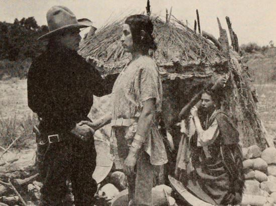 Still from the American western film The Rainbow Trail (1918) with William Farnum (at left), on page 39 of the October 19, 1918 Exhibitors Herald.